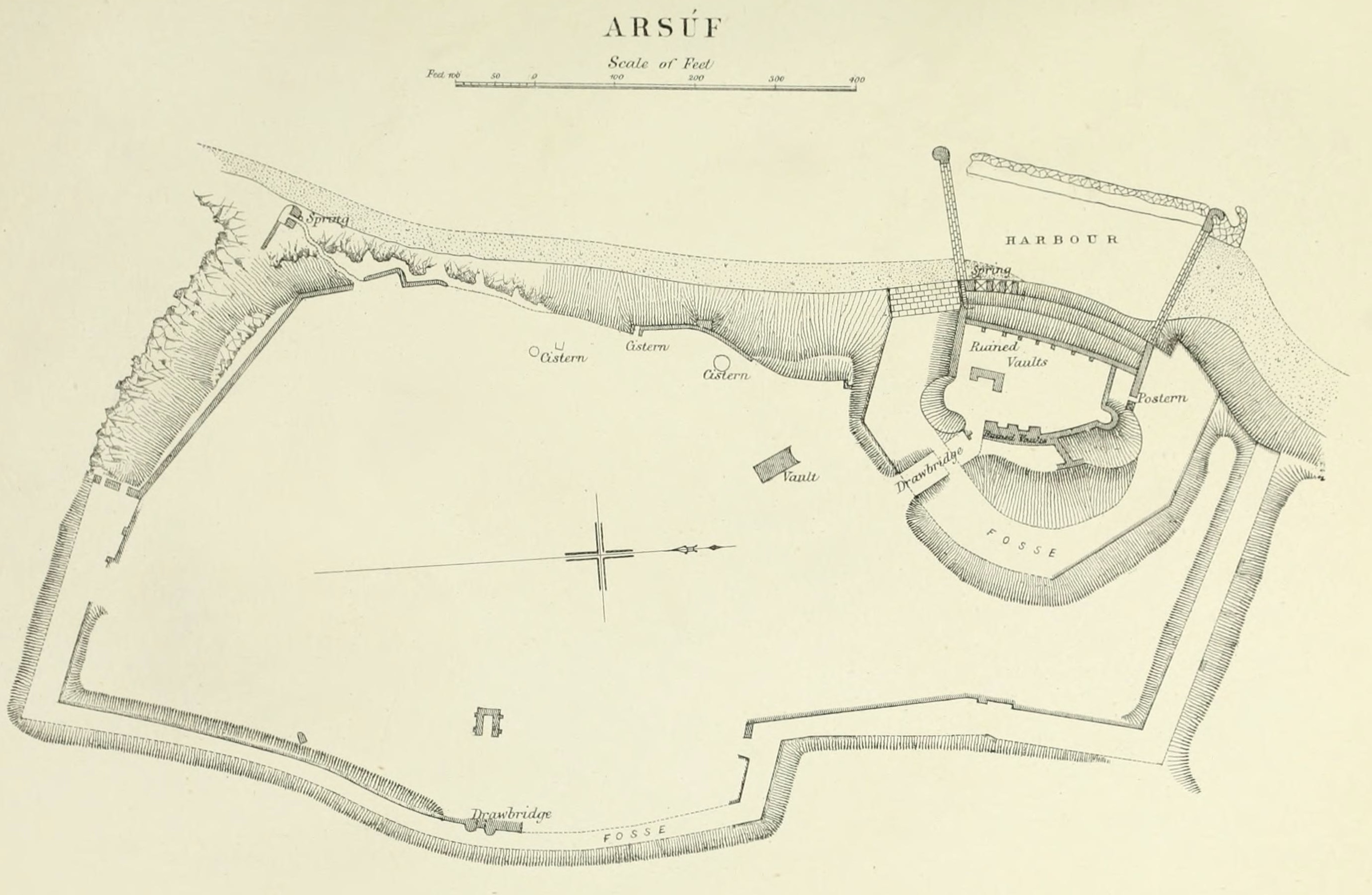 Arsuf from the 1871-77 Palestine Exploration Fund Survey of Palestine